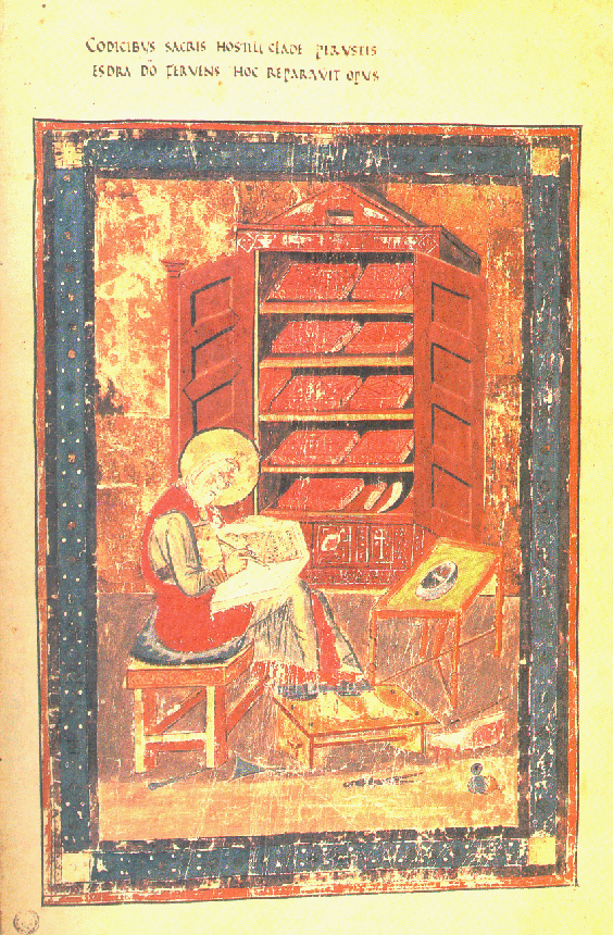 Medieval illumination depicting the scribe Ezra restoring the Old Testament (4 Ezra [= 2 Esdras] 14: 41-48; from the 8th century Codex Amiatinus) Original Latin text above image: Codicibus Sacris Hotill Clade Pervstis Esdra Do Fervens Hoc Reparavit Opus Higher quality image here.